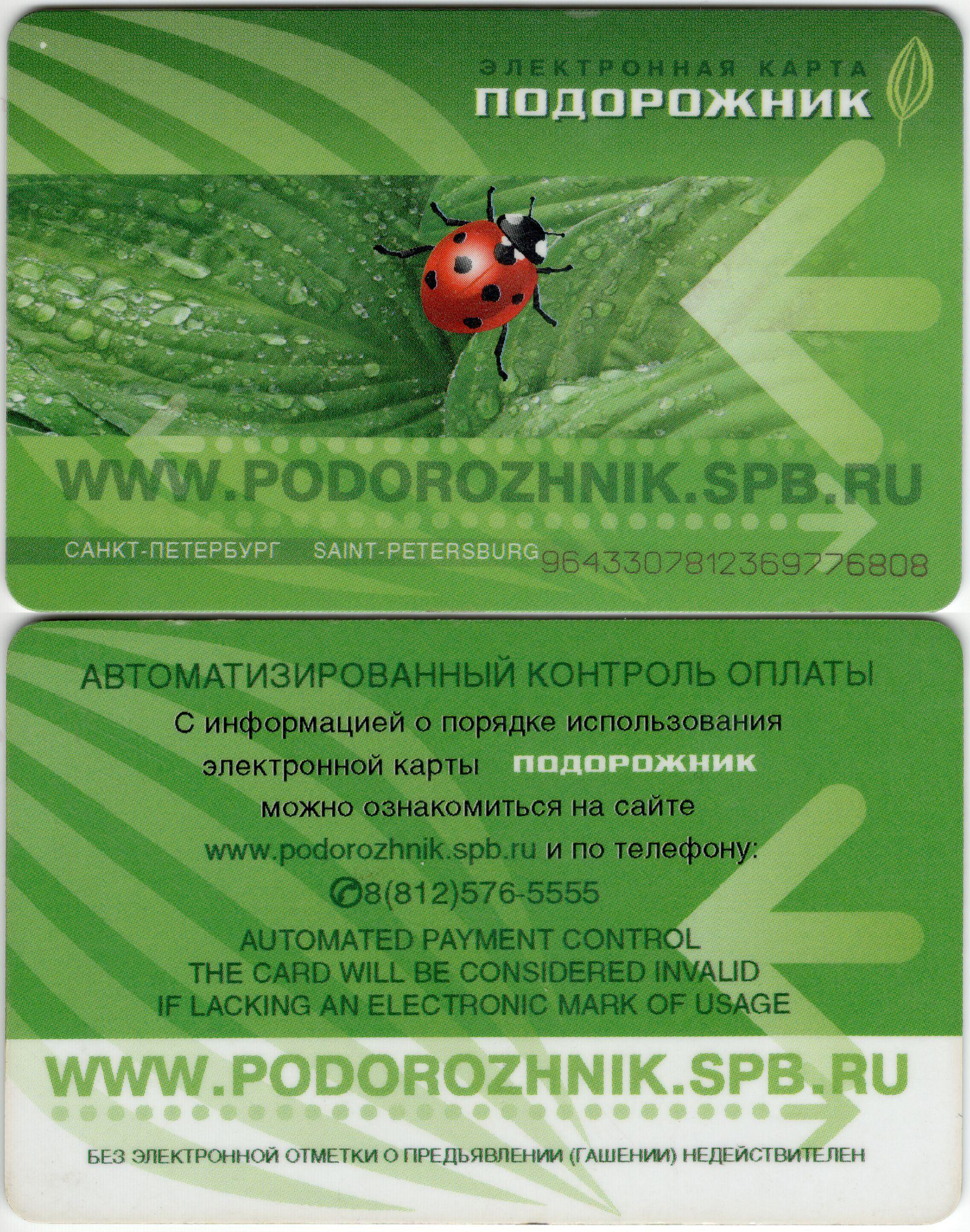 Saint Petersburg Public Transport Smart Card "Podorozhnik" (Psyllium)